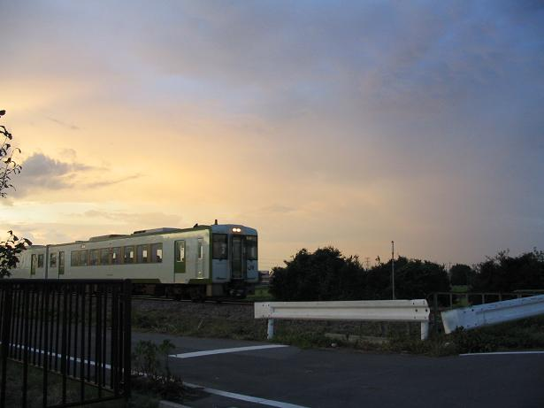 Hachiko-line running near Matsuhisa Station.